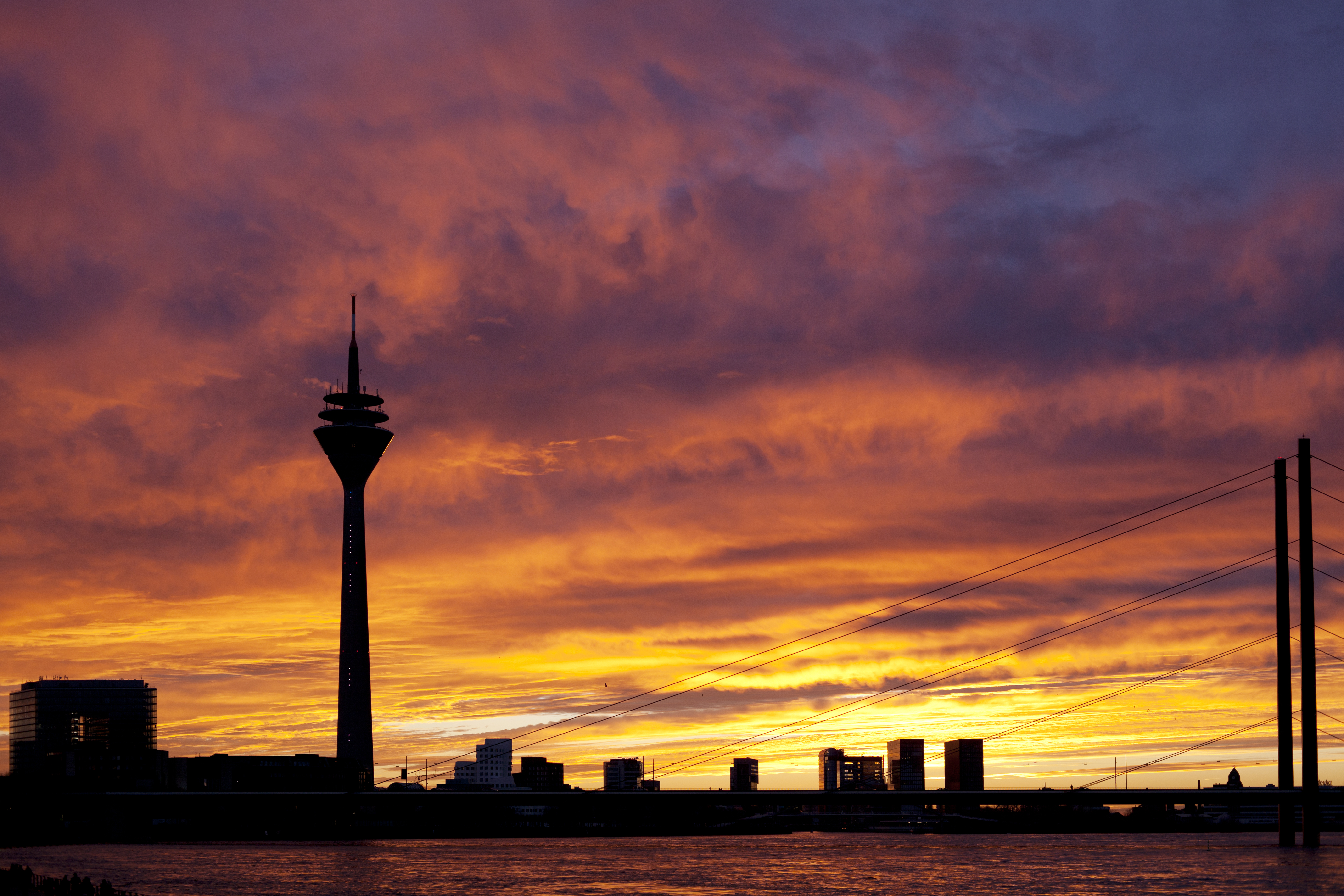 Düsseldorf Rhineturm